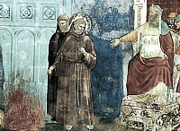 Part of "Giotto - Legend of St Francis - -11- - St Francis before the Sultan (Trial by Fire).jpg".